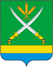 Fastovetskoe (Krasnodar krai), coat of arms